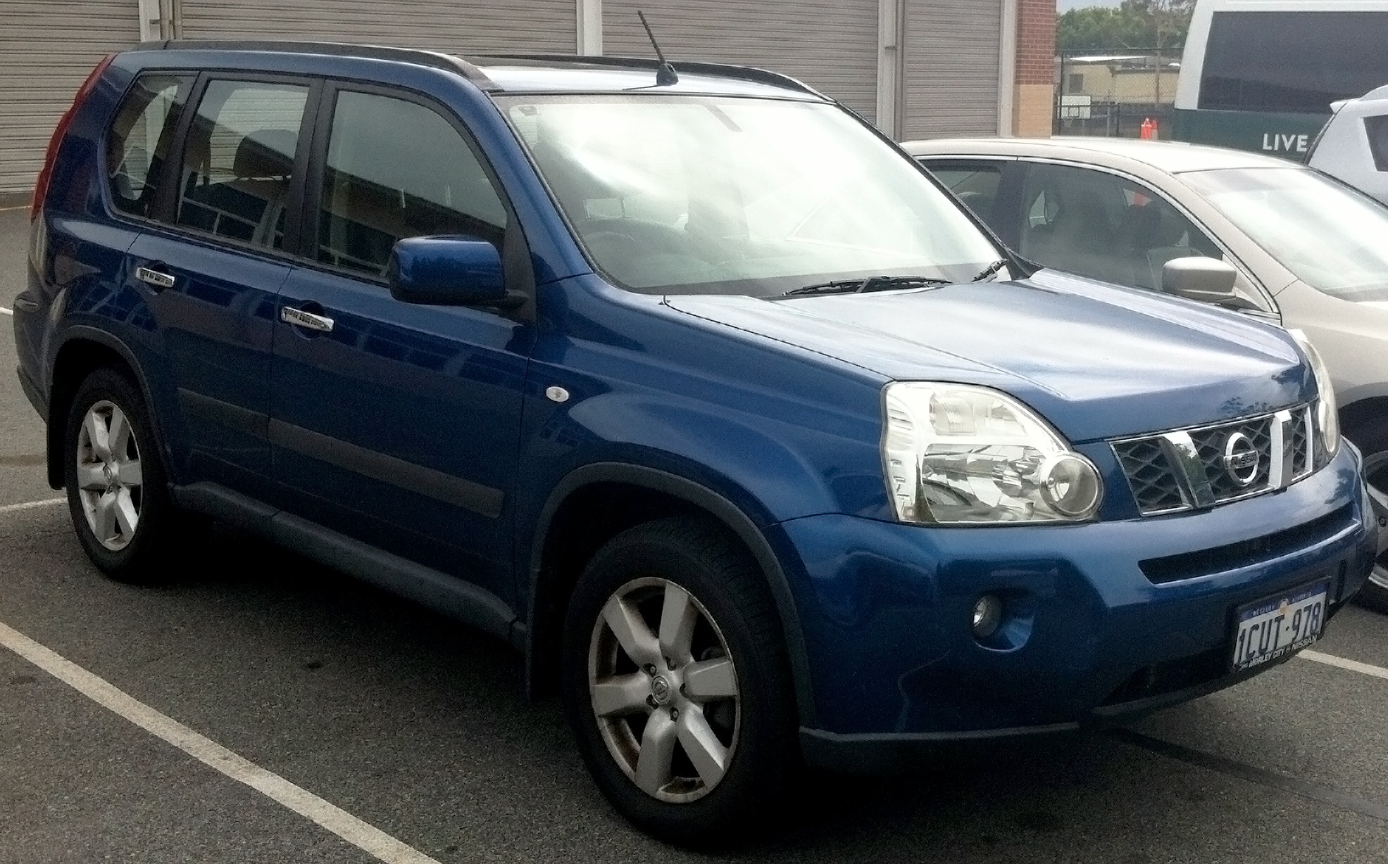 2007-2009 Nissan X-Trail (T31) Ti wagon. Photographed in Claremont, Western Australia, Australia